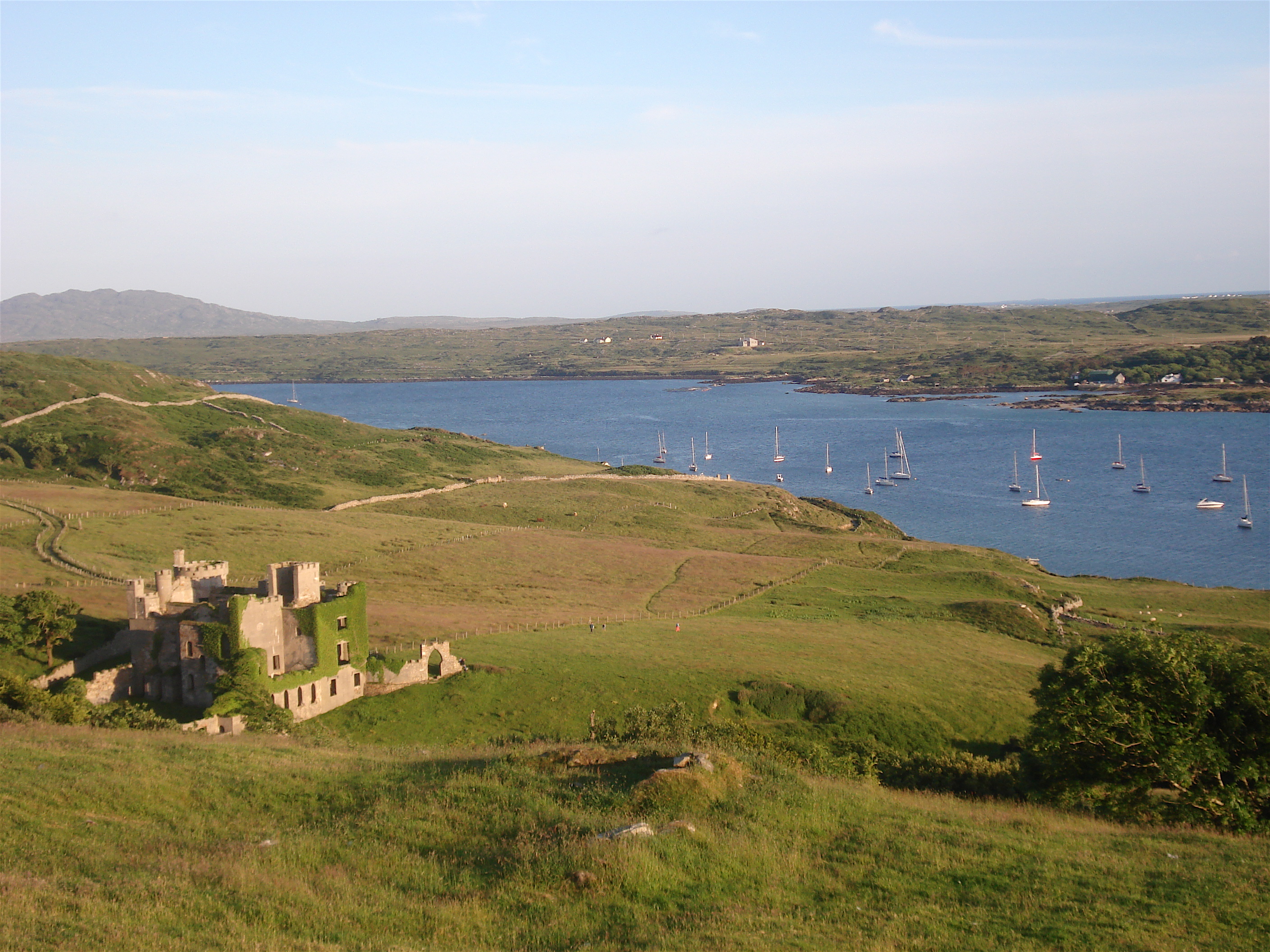 Clifden Castle, on the Sky Road, outside the village of Clifden, County Galway.